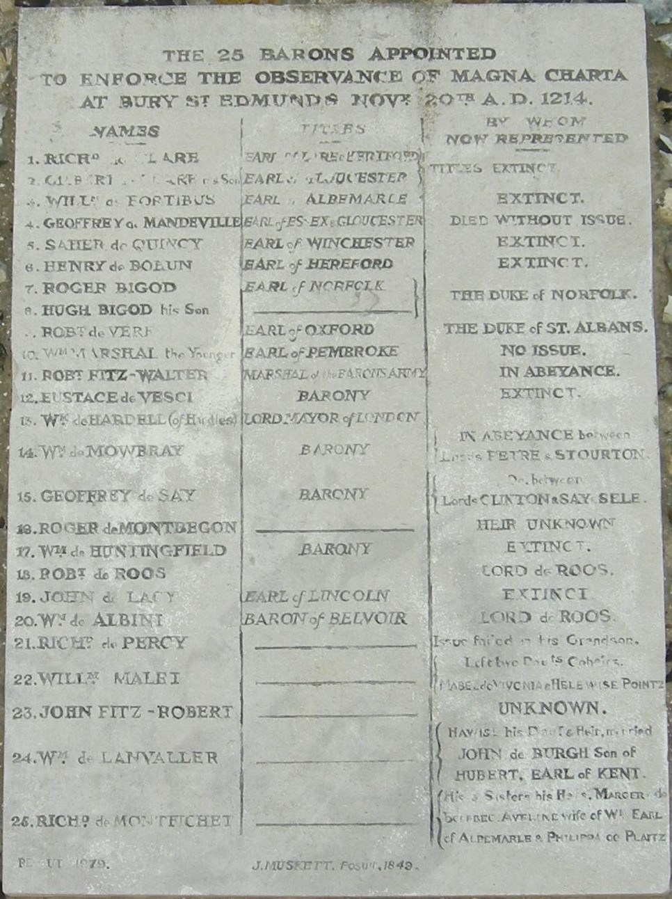 Plaque within the ruins of the Abbey of Bury St Edmunds, Bury St Edmunds, Suffolk, relating to events in 1214 leading to the promulgation of Magna Carta.